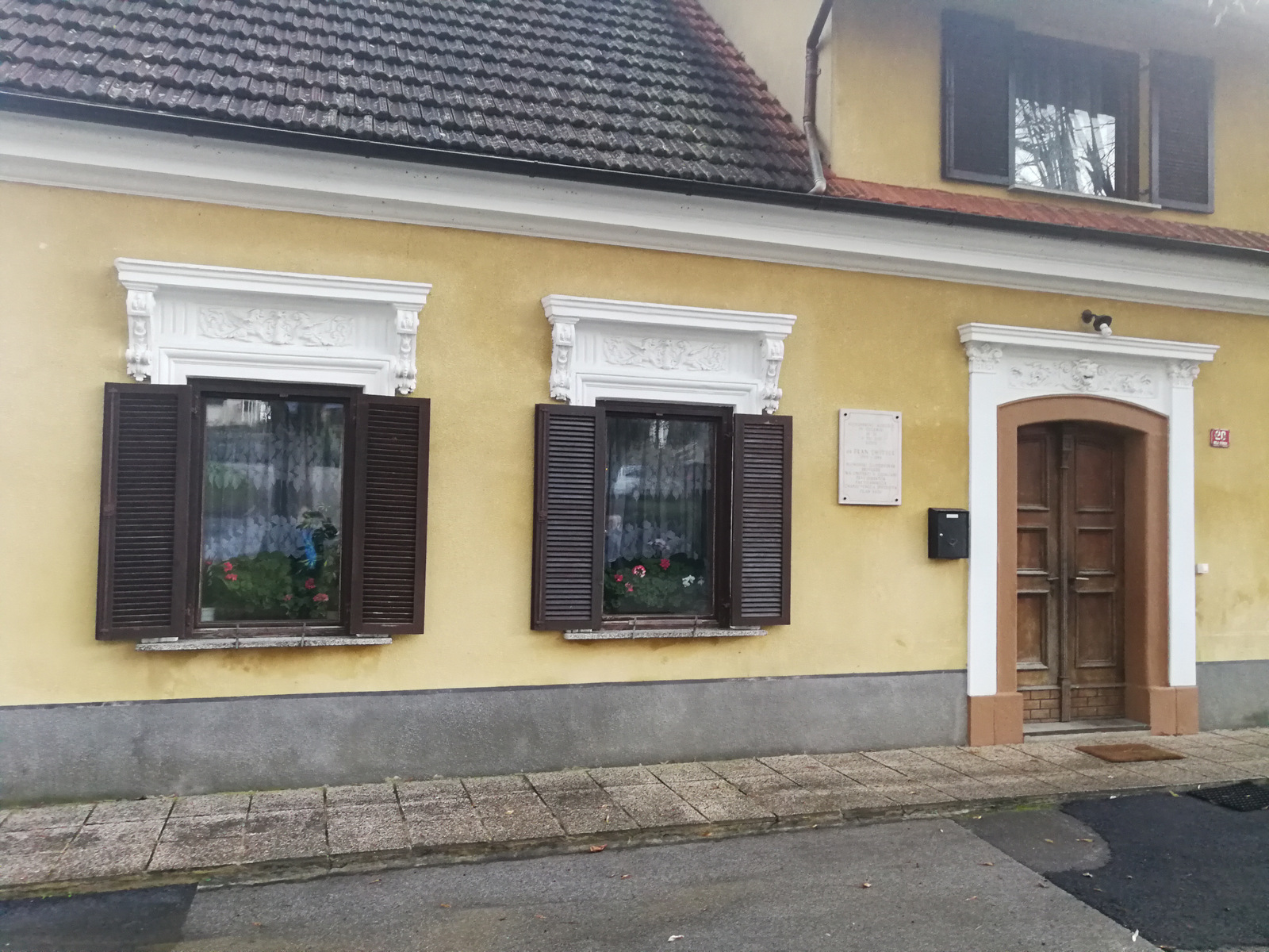 Rojstna hiša Frana Zwittra v Beli Cerkvi